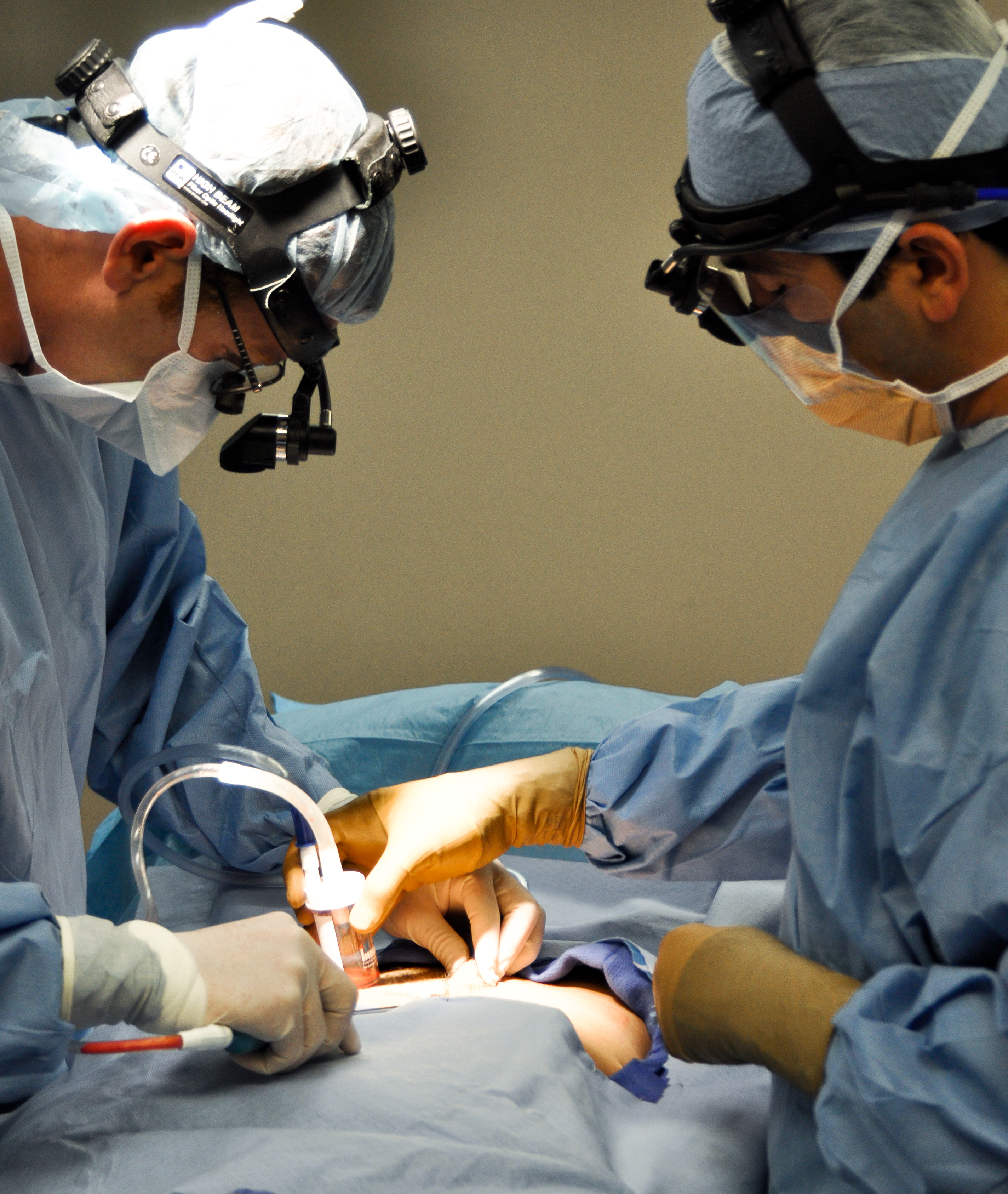 Facial Plastic Surgeon Babak Azizzadeh, MD and fellow extracting fat for facial fat transfer procedure.